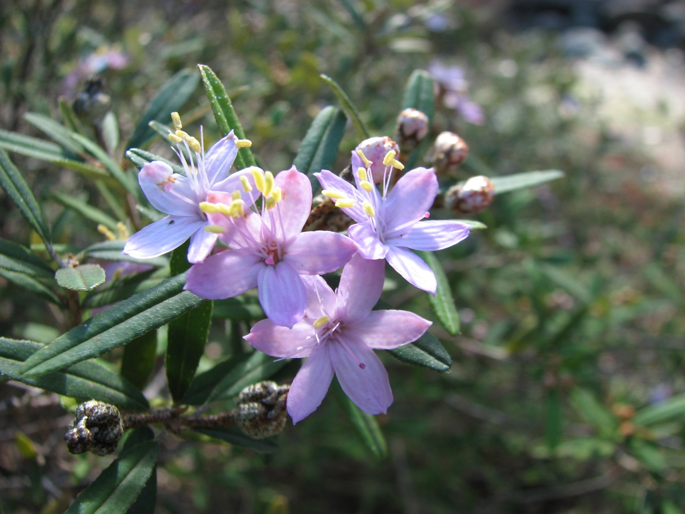 Phebalium nottii (cultivated, labelled) Maranoa Gardens, Balwyn, Victoria, Australia